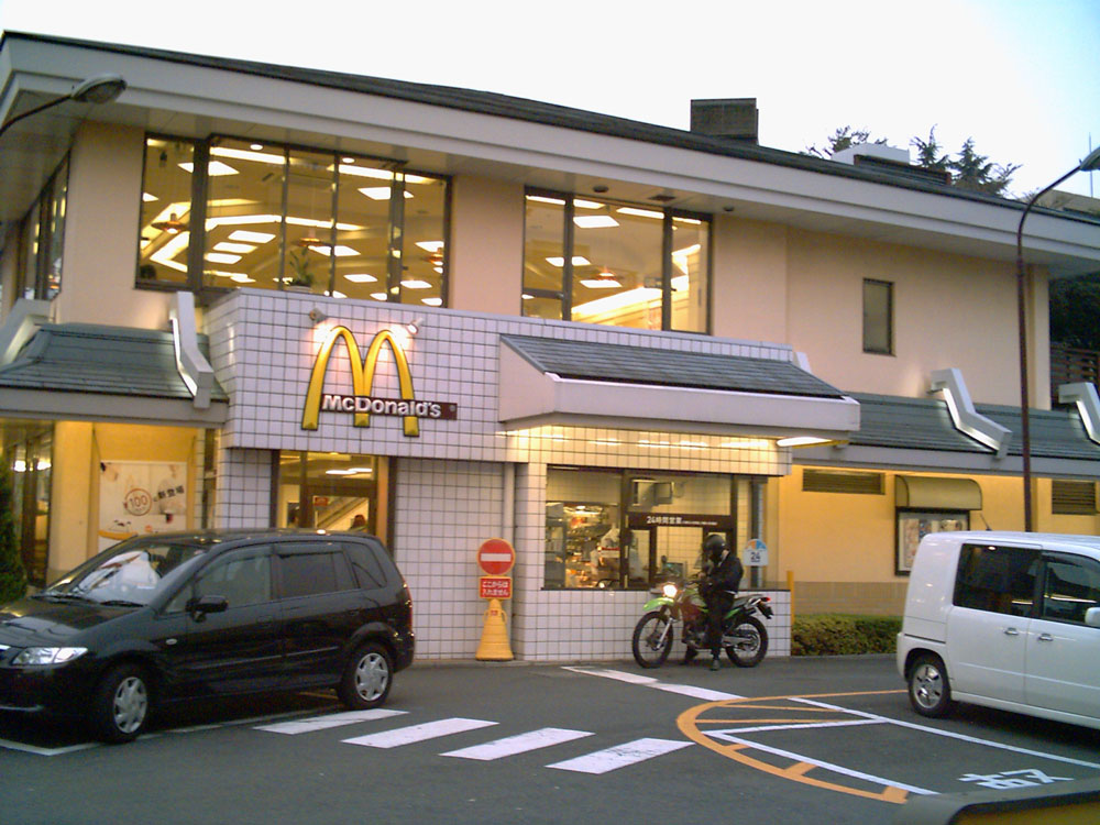 mcdonalds in Japan photography day, 2006/10/20 photography person kici